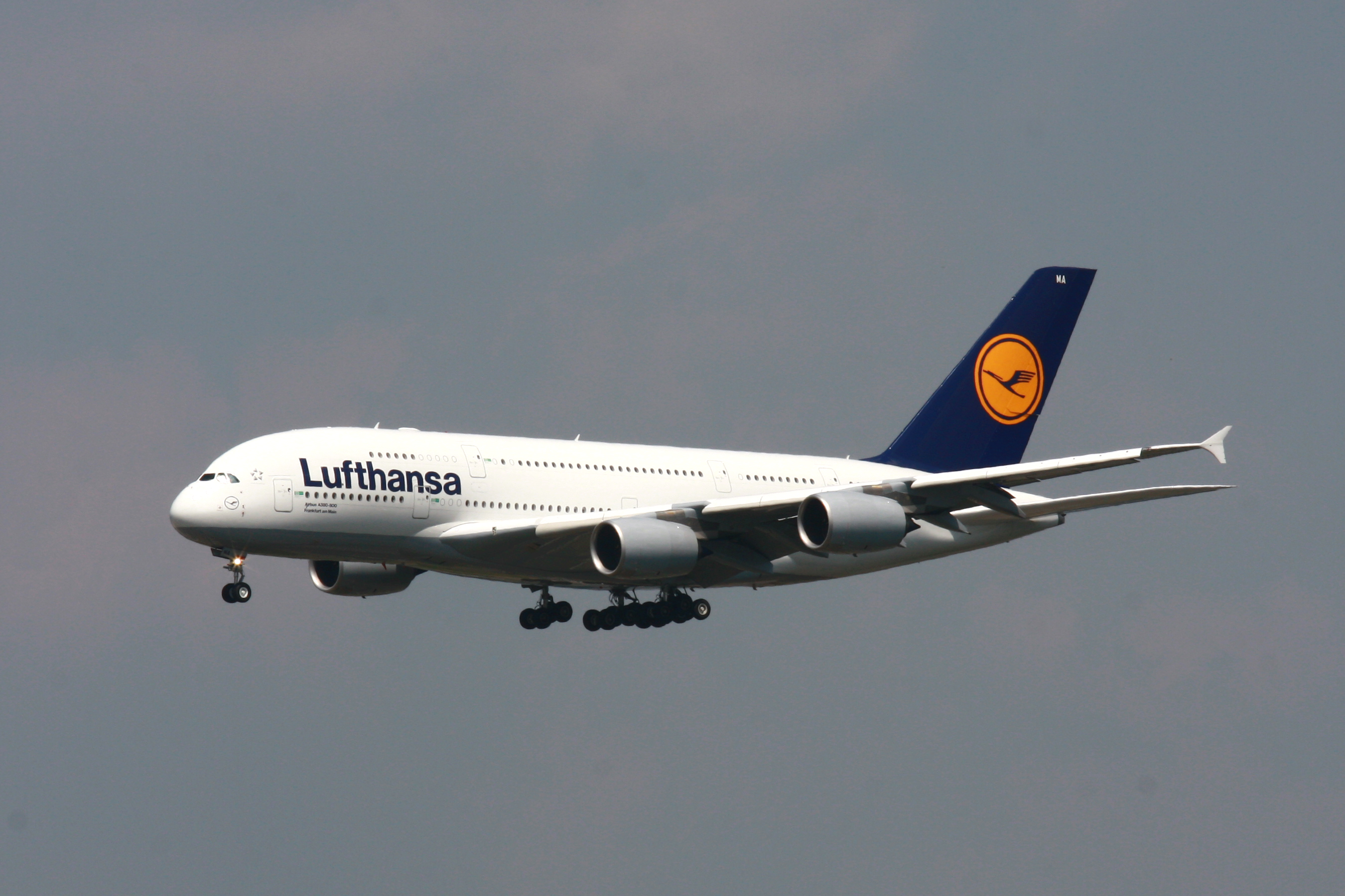 Lufthansa's first Airbus A380 landing at Frankfurt Airport